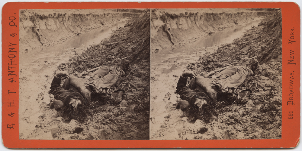 Title: A Dead Rebel Soldier as he lay in the Trenches before Petersburgh, Va., April 2d, 1865. Creator: Roche, T. C. (Thomas C.), 1826-1895 Date: April 3, 1865 Part Of: Physical Description: 1 photographic print on stereo card: stereograph, albumen; 9 x 18 cm. File: ag1982_0145_019_c.jpg Rights: Please cite DeGolyer Library, Southern Methodist University when using this file. A high-resolution version of this file may be obtained for a fee. For details see the web page. For other information, . For more information and to view the image in high resolution, View the